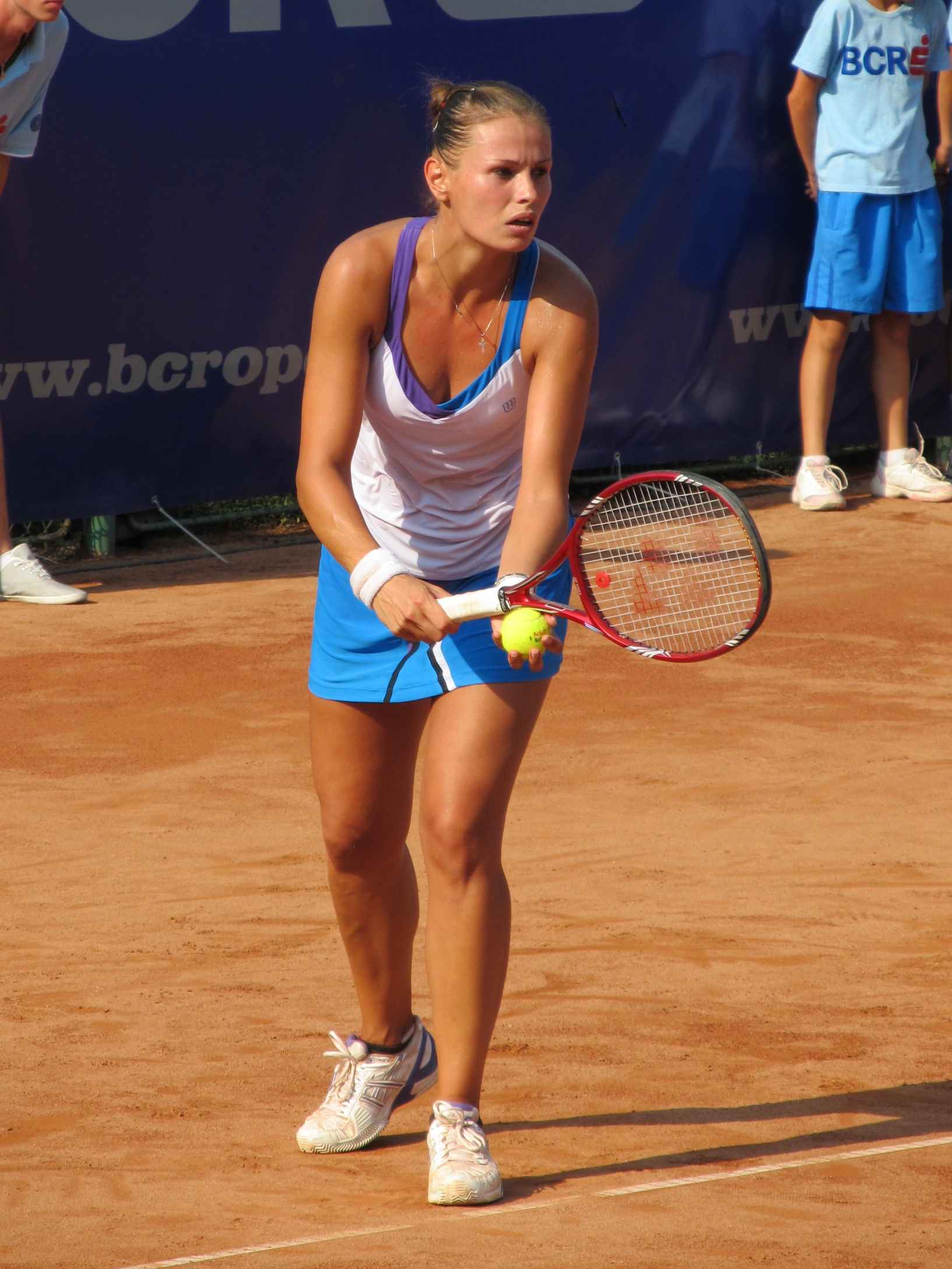 Liana Ungur playing singles in the first round at the 2011 BCR Open Romania Ladies